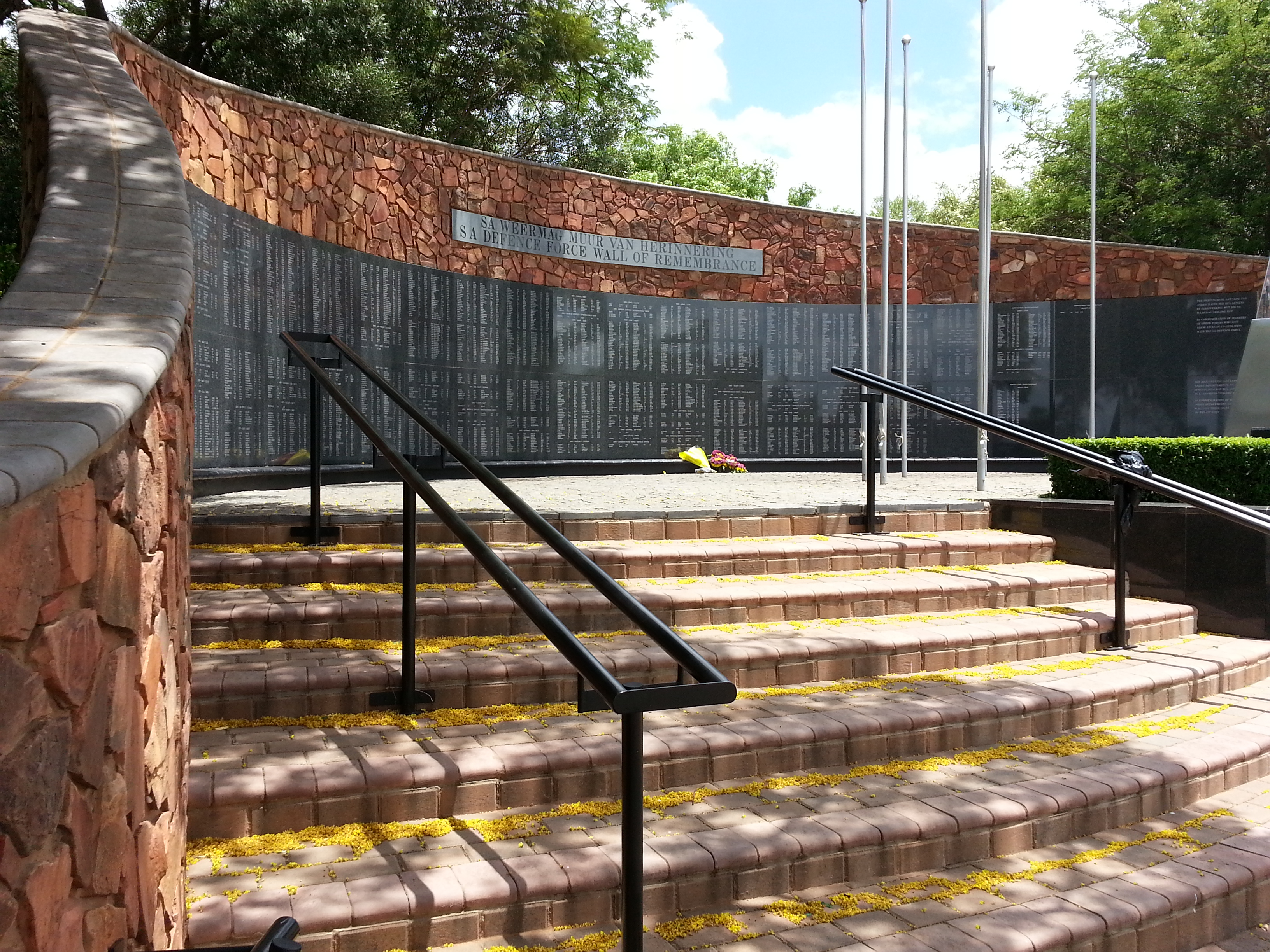 Wall of Remembrance located at Voortrekker Monument. It commemorates the members of the South African Defence Force who gave their lives in the service of their country.